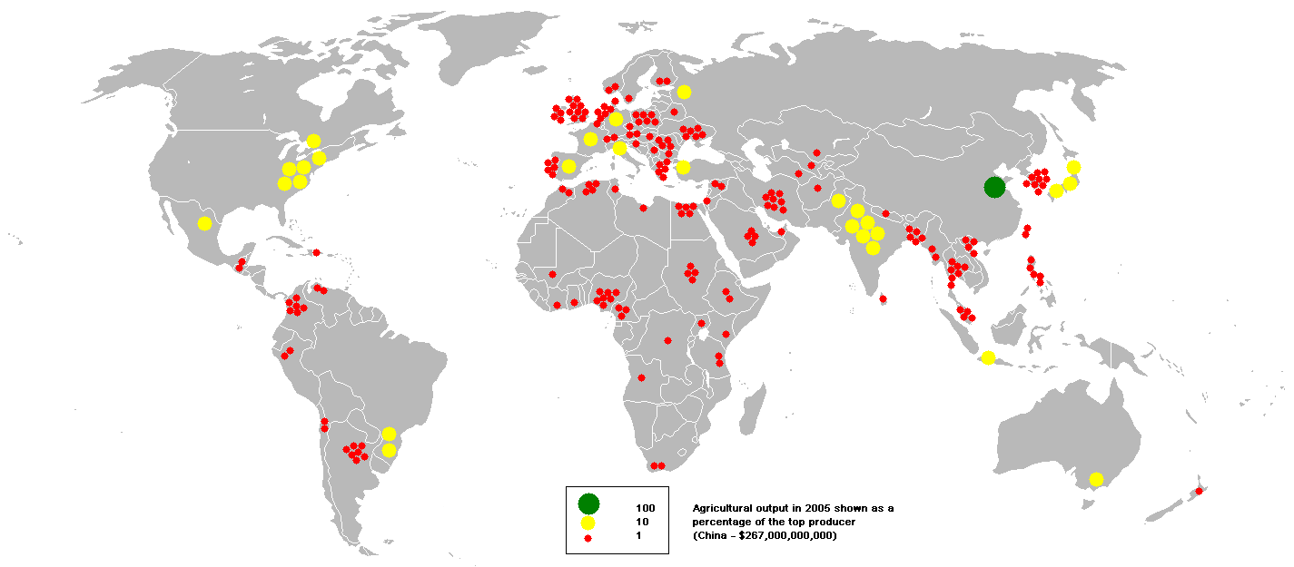 This bubble map shows the global distribution of agricultural output in 2005 as a percentage of the the top producer (China - $267,000,000,000). This map is consistent with incomplete set of data too as long as the top producer is known. It resolves the accessibility issues faced by colour-coded maps that may not be properly rendered in old computer screens. Data was extracted on 31st May 2007.